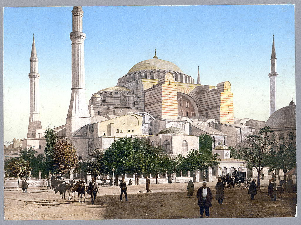 Hagia Sophia − Ayasofya Mosque — in Istanbul, the Ottoman Empire. TITLE: [Mosque of St. Sophia, Istanbul, Turkey] CALL NUMBER: FOREIGN GEOG FILE - Turkey [item] [P&P] REPRODUCTION NUMBER: LC-DIG-ppmsca-03035 (digital file from original) No known restrictions on publication. MEDIUM: 1 photomechanical print : photochrom, color. CREATED/PUBLISHED: [between ca. 1890 and ca. 1900] NOTES: Title devised by Library staff. Print no. "6400." SUBJECTS: Ayasofya Müzesi--1890-1900. Mosques--Turkey--Istanbul--1890-1900. FORMAT: Photochrom prints Color 1890-1900. REPOSITORY: Library of Congress Prints and Photographs Division Washington, D.C. 20540 USA DIGITAL ID: (original) ppmsca 03035 ppmsca 03035 CARD #: 2003653107